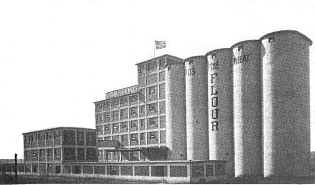 The plant of the Montana Flour Mills in Great Falls, Montana, in the United States in 1920. The plant, one of several in central Montana operated by Montana Flour Mills, was erected in 1916.